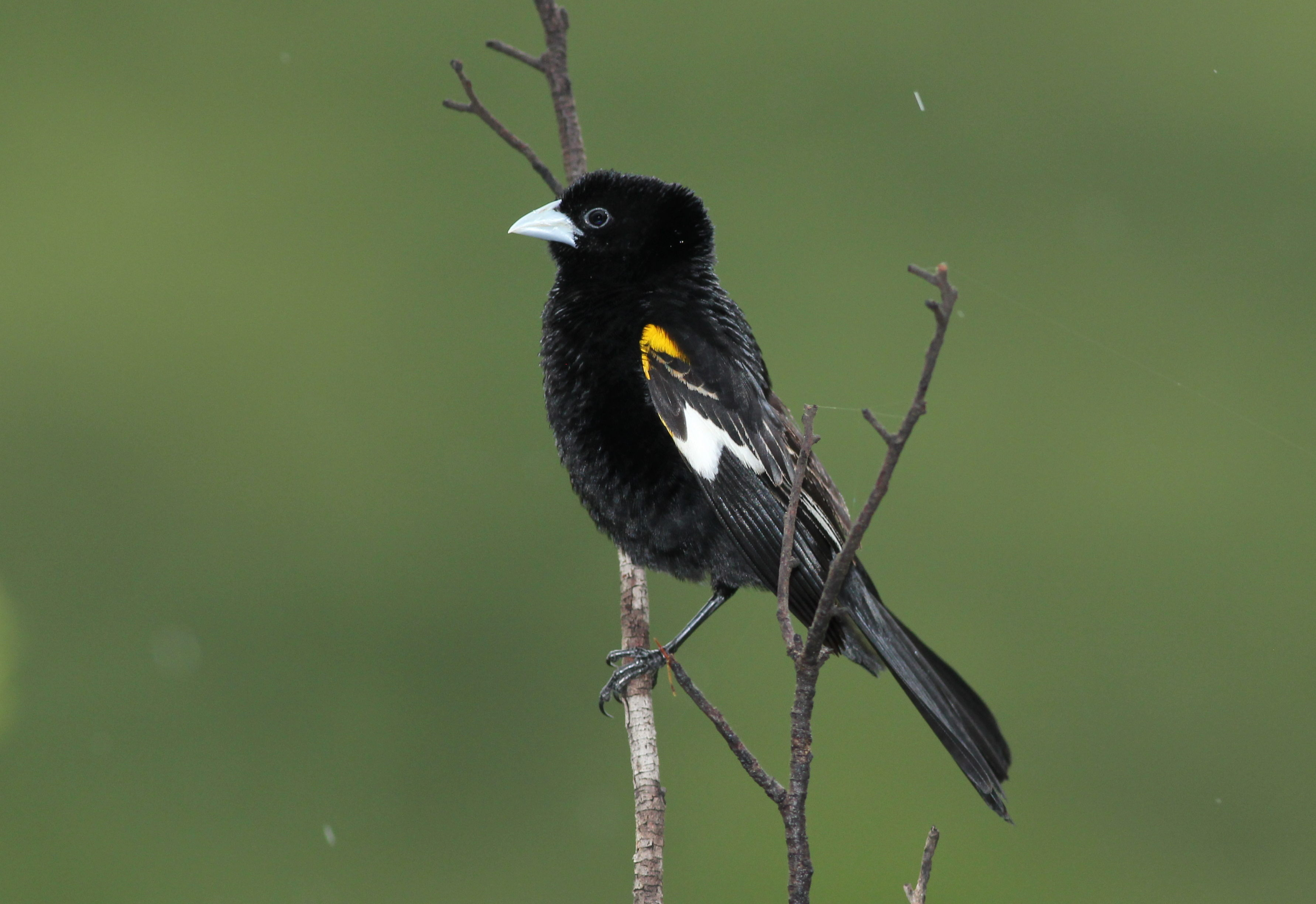 White-winged widowbird, Euplectes albonotatus, at Pilanesberg National Park, Northwest Province, South Africa